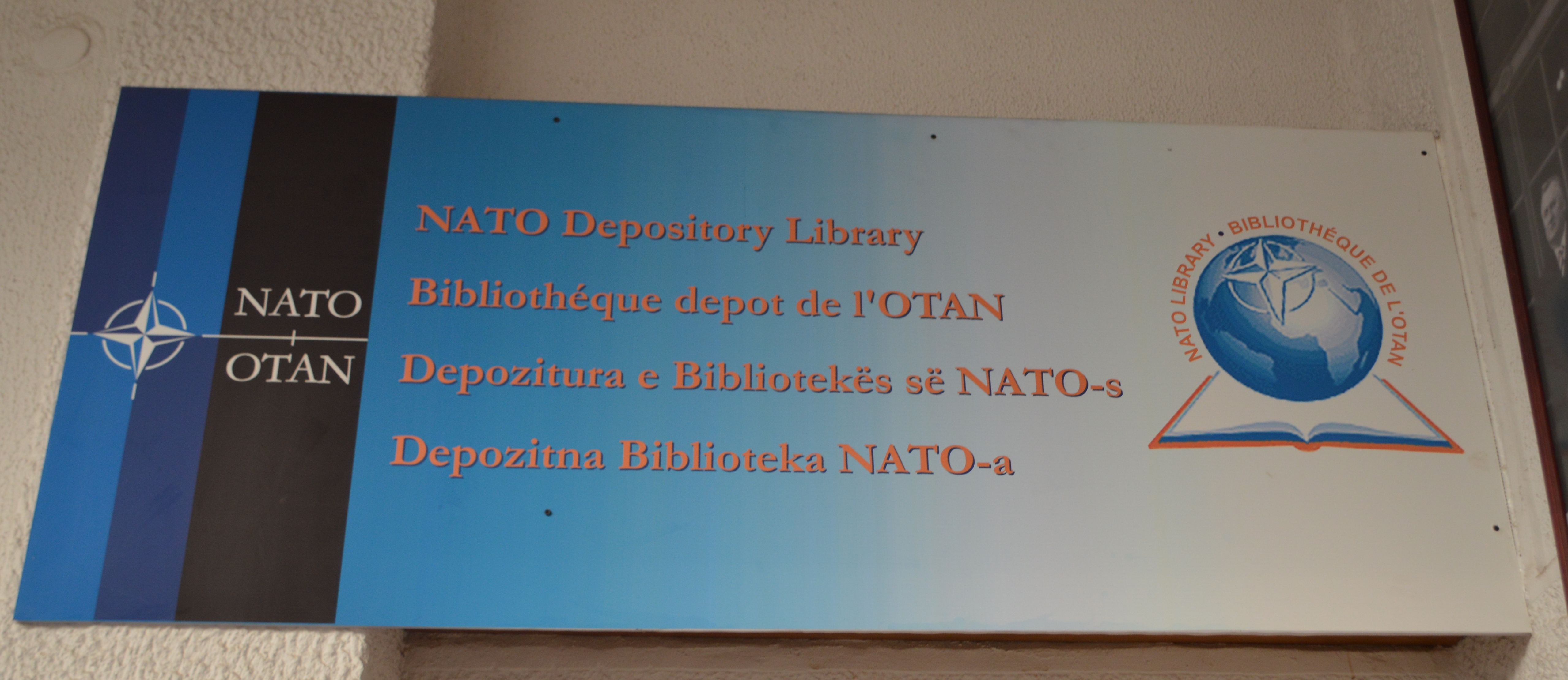 National Library of Kosovo